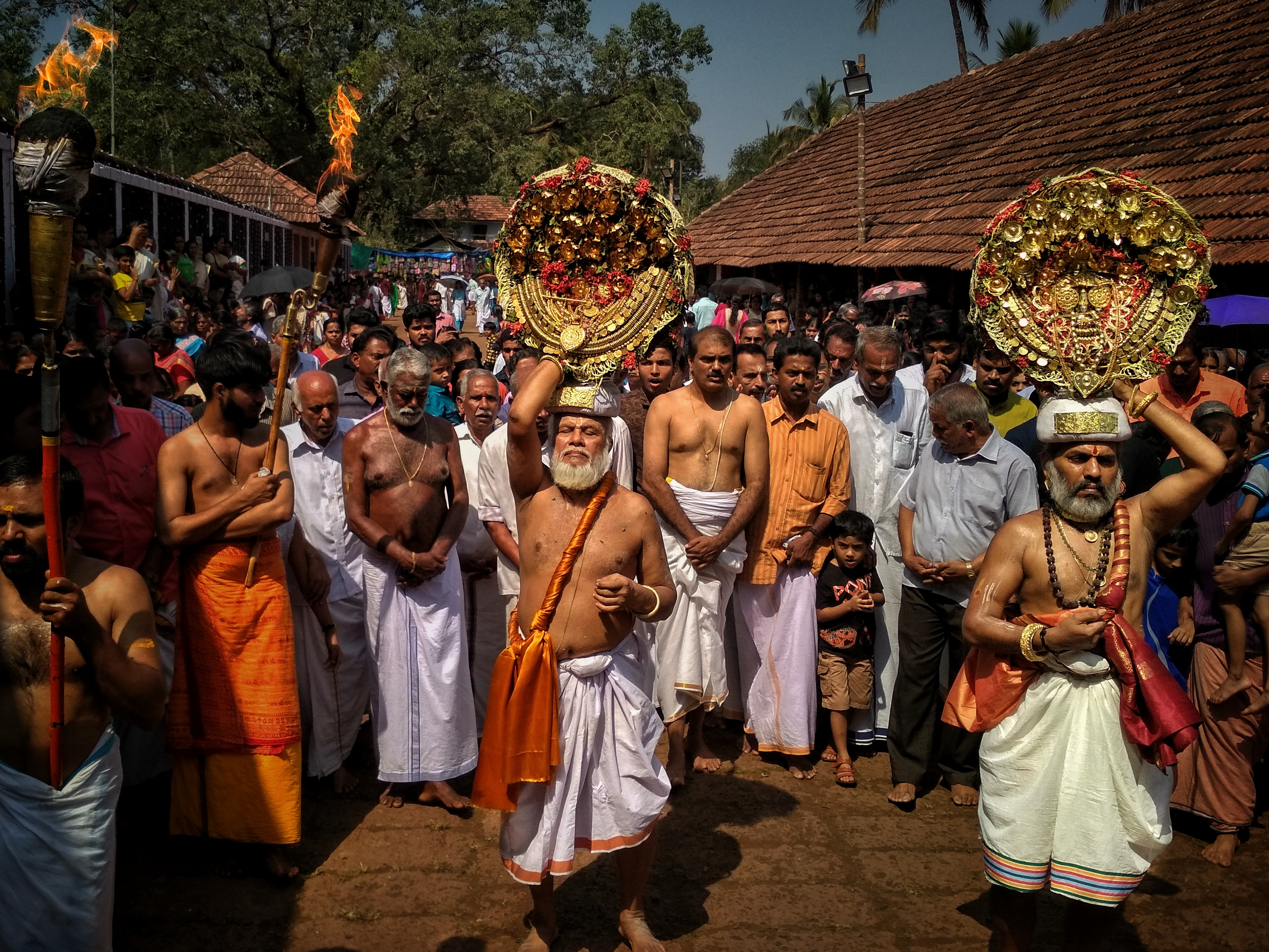 Thitambu nriththam (sort of dance with deities of Lord Krishna & Balrama) are held here at Trichambaram Temple also known as the North Guruvayoor annually This photo has been taken in the country: India